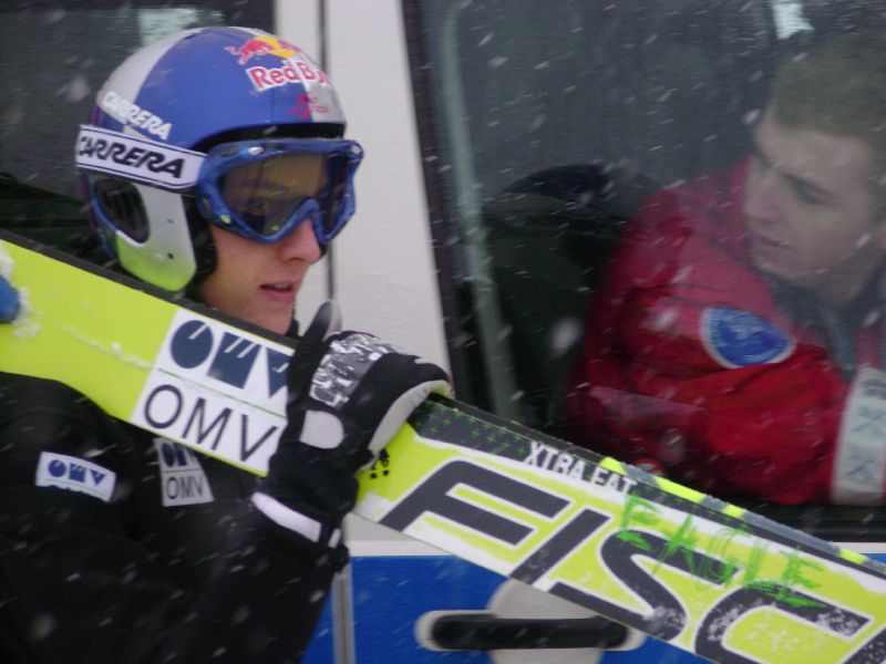 ski jumper Gregor Schlierenzauer from Austria during the World Cup in Zakopane on 27-1-2008